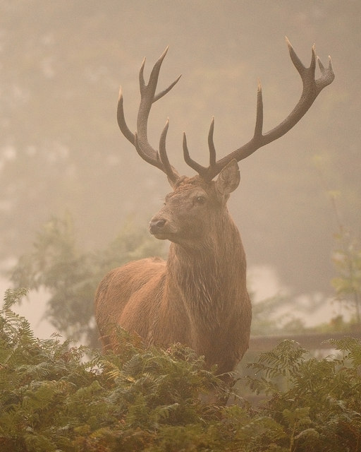 Red deer, Bradgate Park A great place to see red deer.